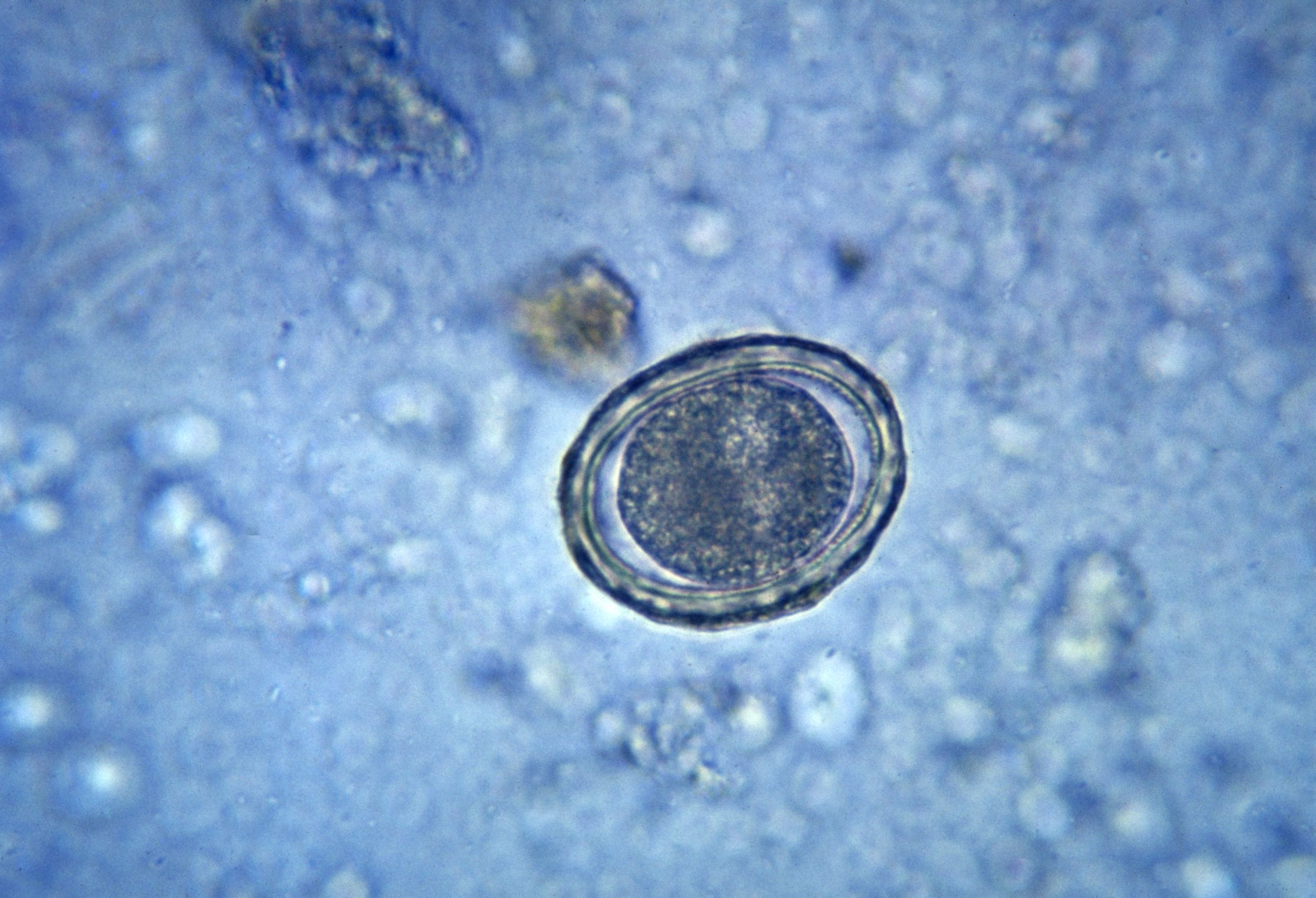 ID#: 410 Description: This micrograph reveals a fertilized egg of the round worm Ascaris lumbricoides; Mag. 400X. Fertilized eggs are rounded, have a thick shell. While unfertilized eggs are elongated and larger, thinner shelled, covered by a more visible mammillated layer, which is sometimes covered by protuberances. Content Providers(s): CDC/Dr. Mae Melvin Creation Date: 1982 Copyright Restrictions: None - This image is in the public domain and thus free of any copyright restrictions. As a matter of courtesy we request that the content provider be credited and notified in any public or private usage of this image.